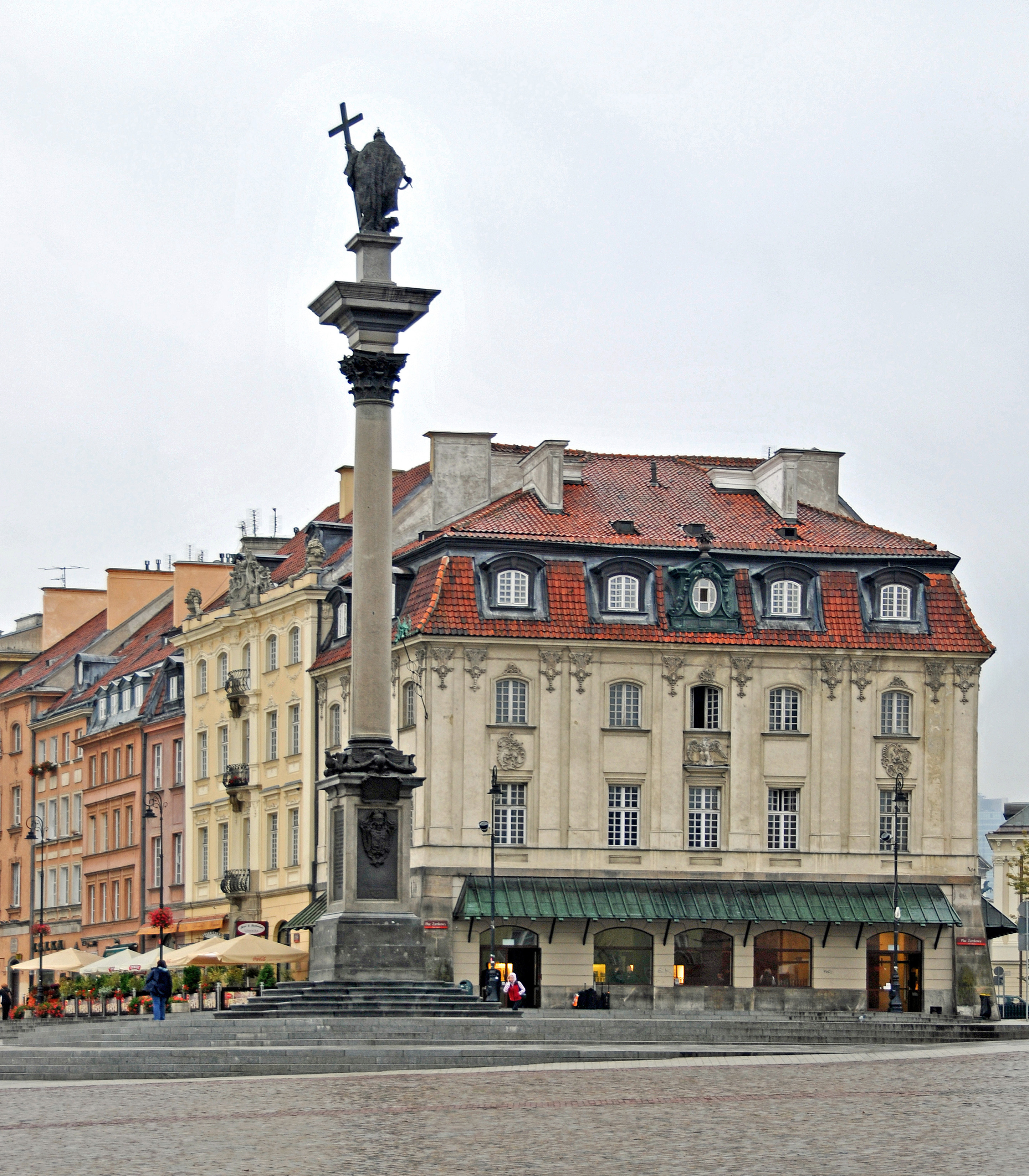 PLEASE, no multi invitations in your comments. Thanks. I AM POSTING MANY DO NOT FEEL YOU HAVE TO COMMENT ON ALL - JUST ENJOY Castle Squares used to belong to the king. The buildings around it were created at the time when the Castle was extended, during the reign of King Zygmunt III Waza. This Baroque monument is unique in Europe, as it departs from the traditional model of a ruler’s monument. The sculpture of the King is 2.75 m high, in archaistic armour. The column’s height, including its pedestal, is 22 meters. The Column fell down in January 1945, and was reconstructed in 1948-1949. At that time the column was moved to face Krakowskie Przedmieście street.